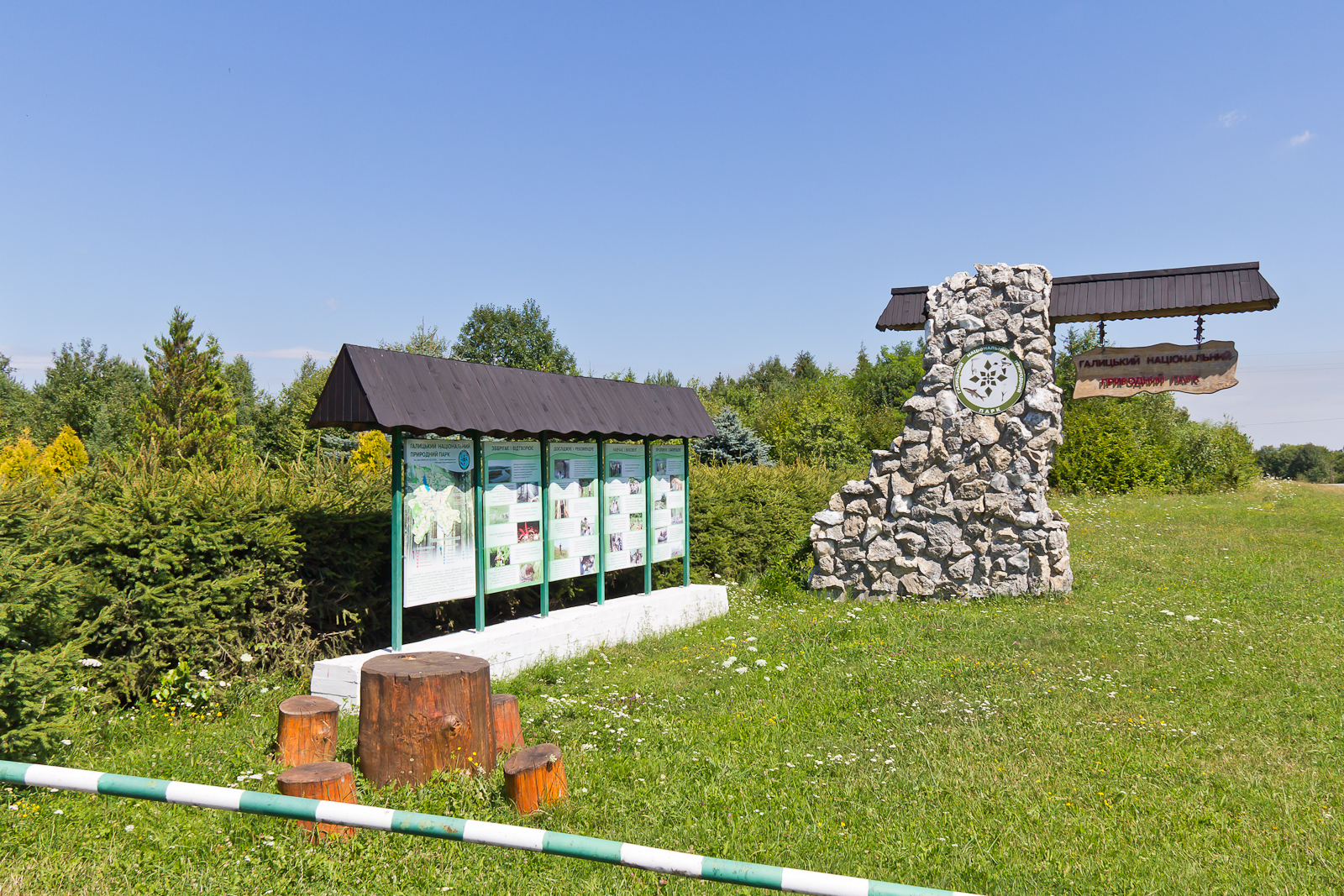 Museum of the Halych National Park Information board in front of the entrance to the museum.